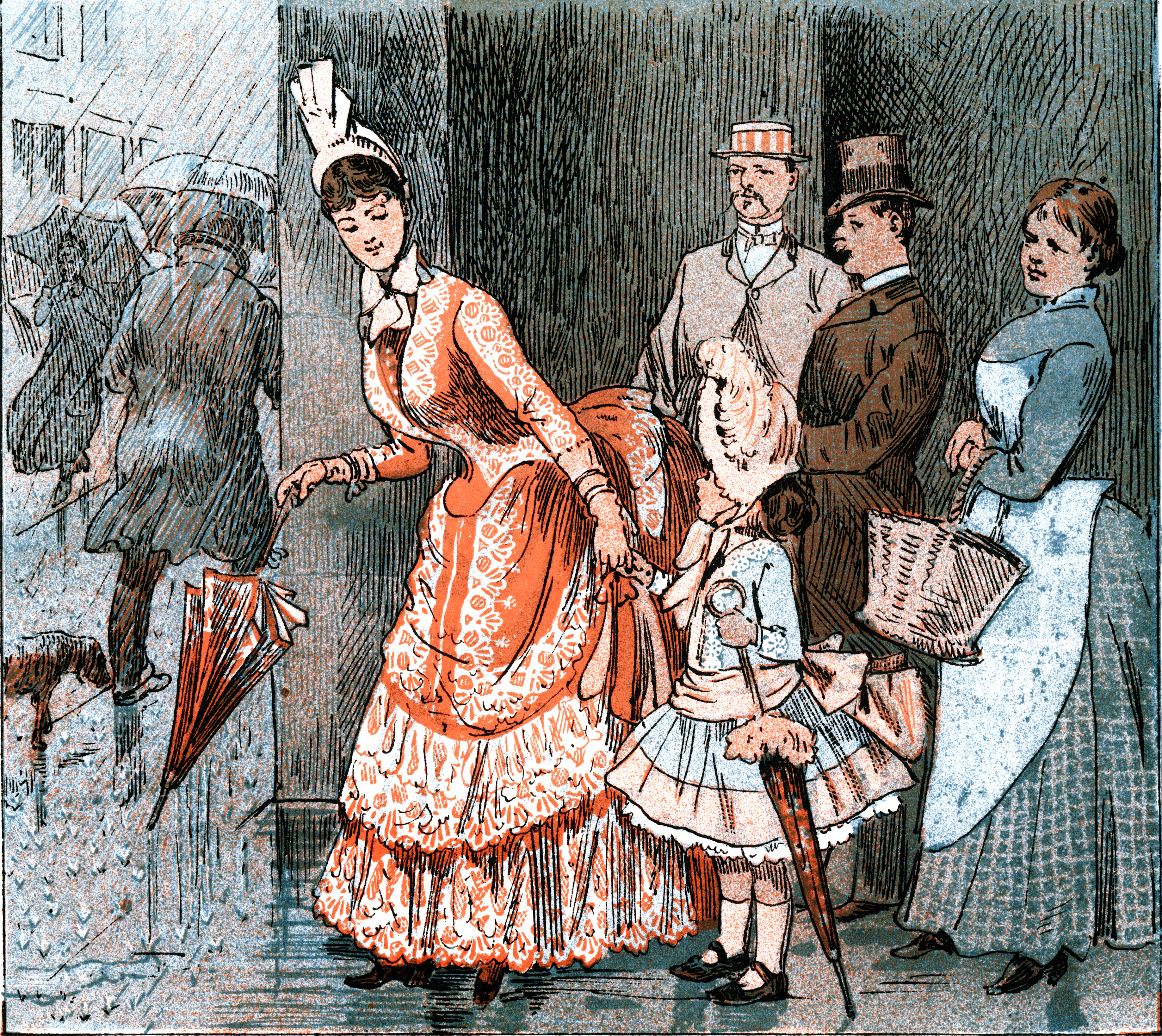 Having a rain-shower. - Mother! Our Lord knows enough not think there are any people out today.